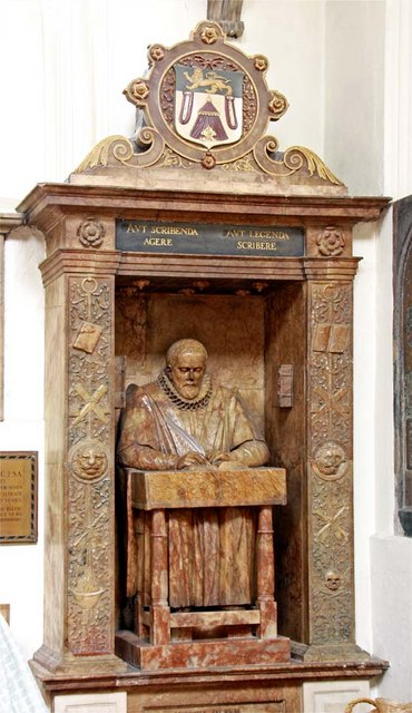 St Andrew Undershaft, St Mary Axe, EC2 - Wall monument of John Stow. Arms of Worshipful Company of Merchant Taylors. Latin inscription above: "Either act by writing or write by reading".